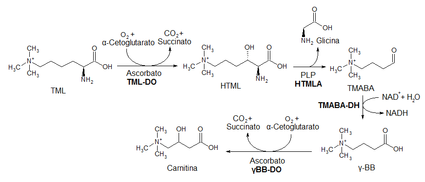 Carnitine biosynthesis in mammals